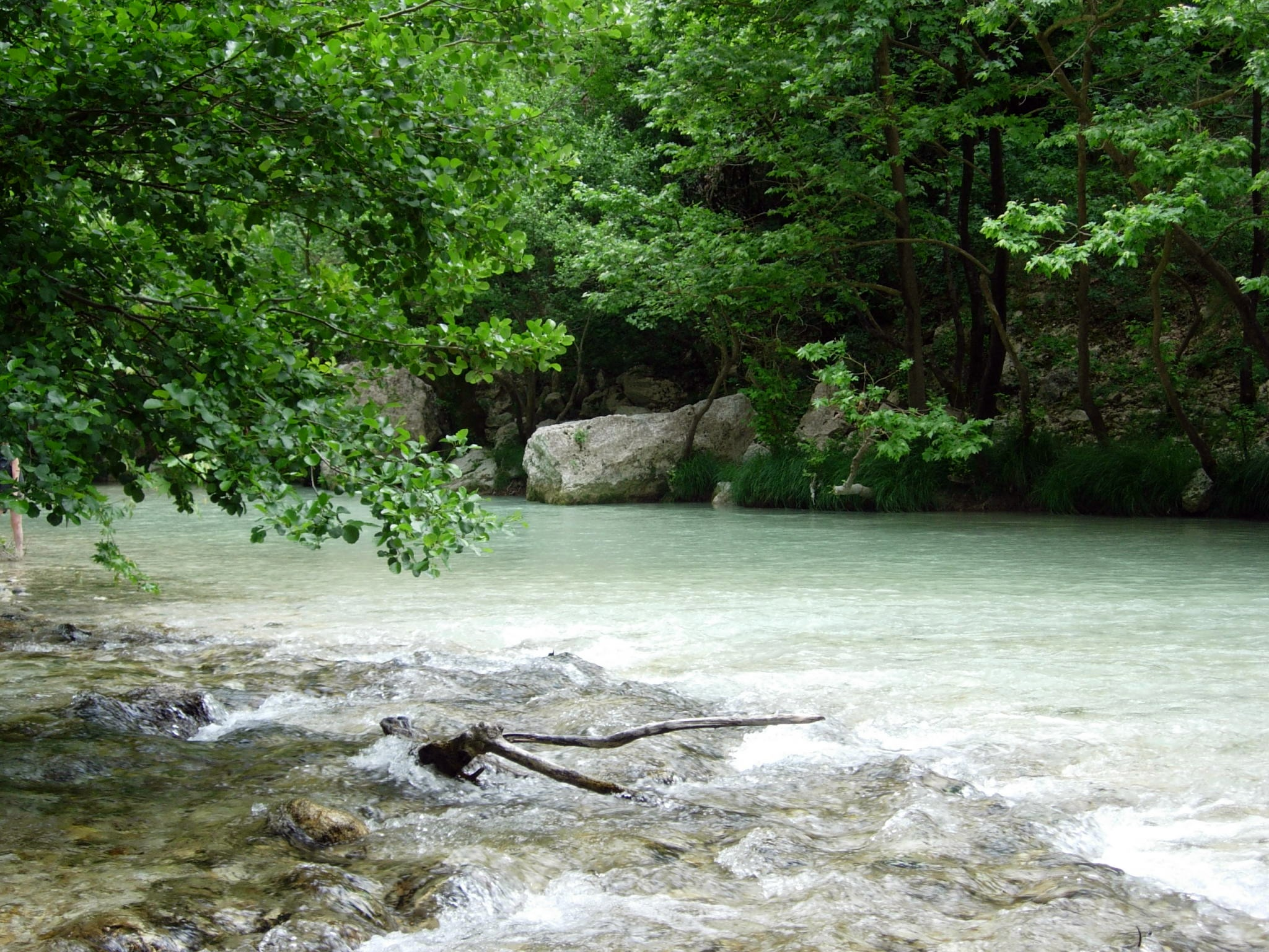 Acheron river near the village of Glyki (Gliki) in May 2005.